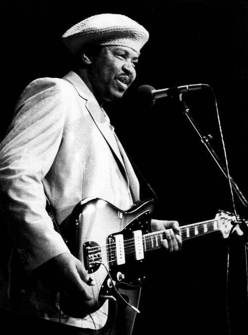 American blues singer and guitarist Magic Slim in France